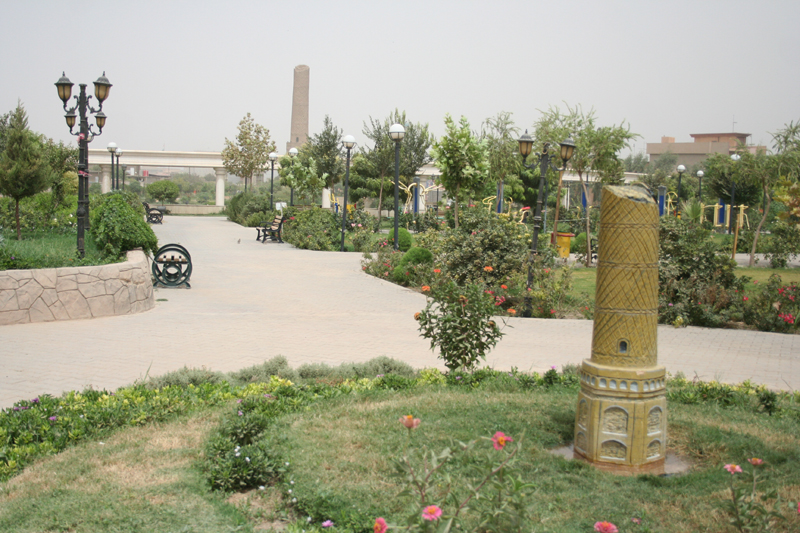 Minar Park, Erbil, Iraqi Kurdistan